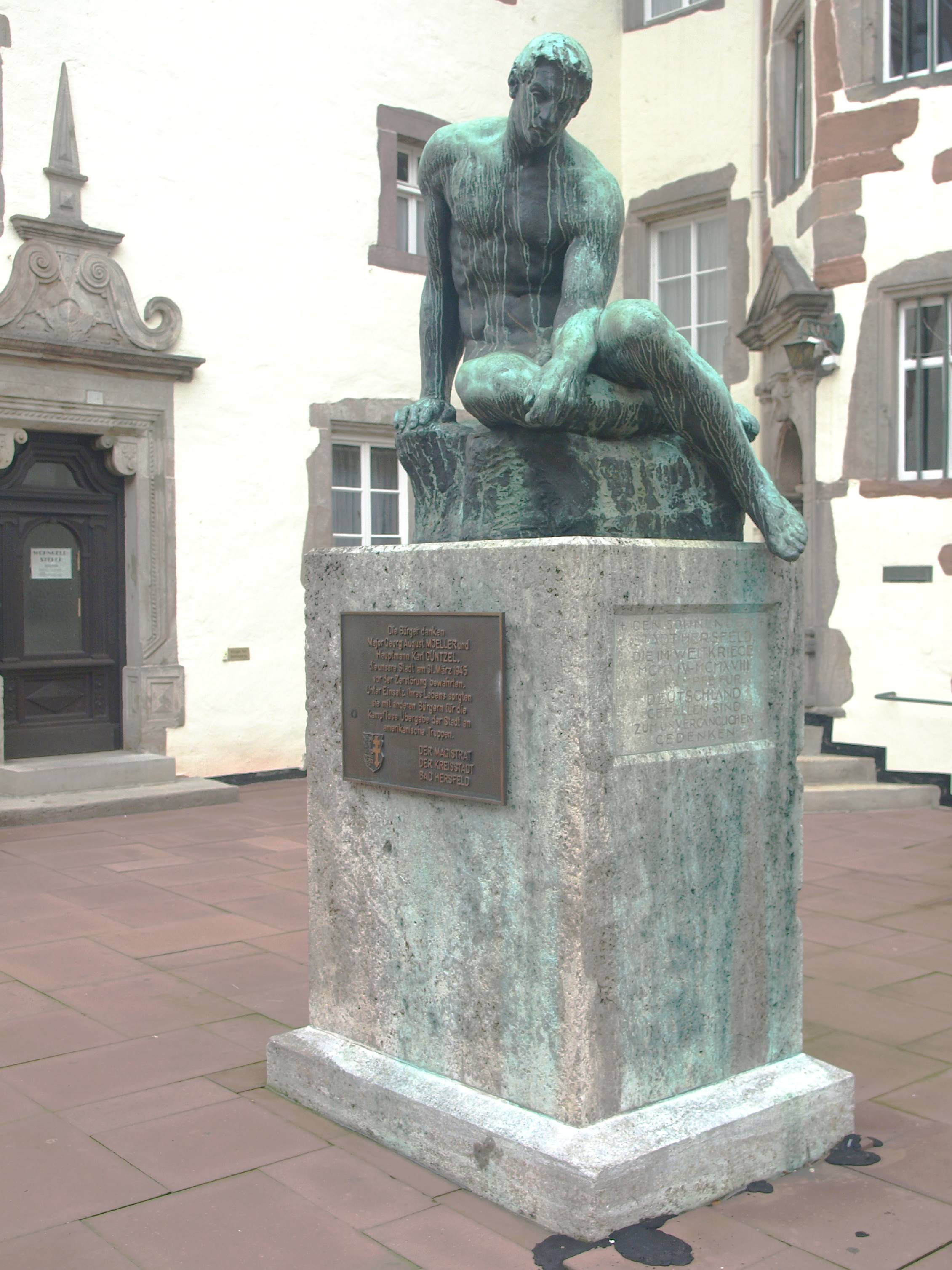 Bronze on the Rathausplatz in Bad Hersfeld, in remembrance of dead soldiers of the First World War. The bronze was made by Arnold Rechberg.